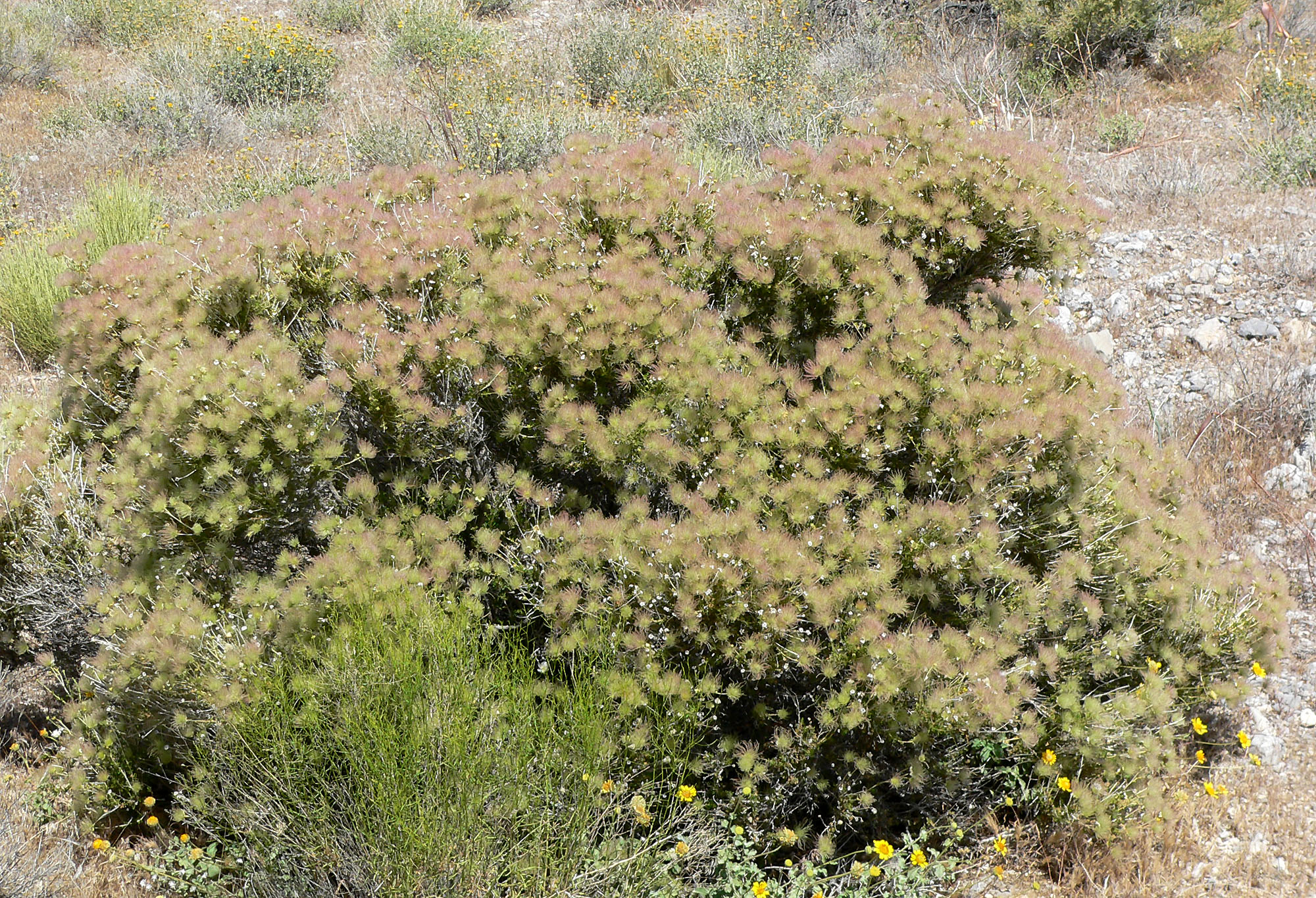 Fallugia paradoxa in Kyle Canyon, Spring Mountains, west of Las Vegas, Nevada